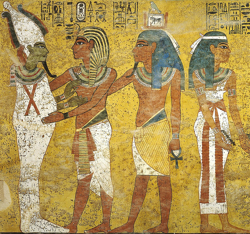 A scene from the tomb of Tutankhamun, KV62.